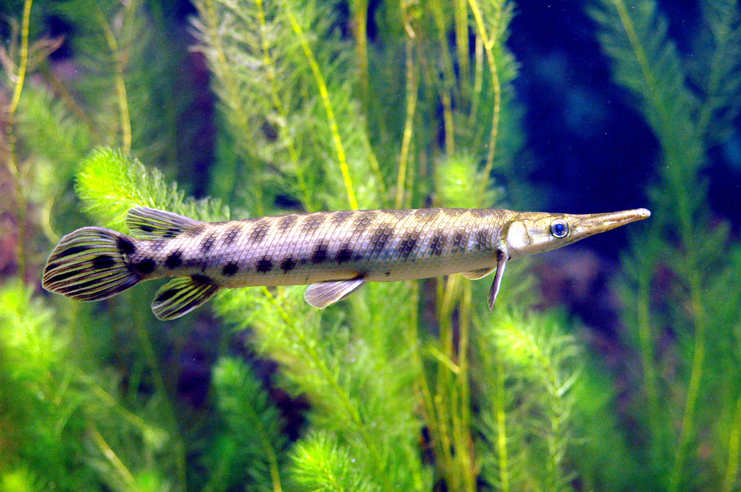 Spotted gar